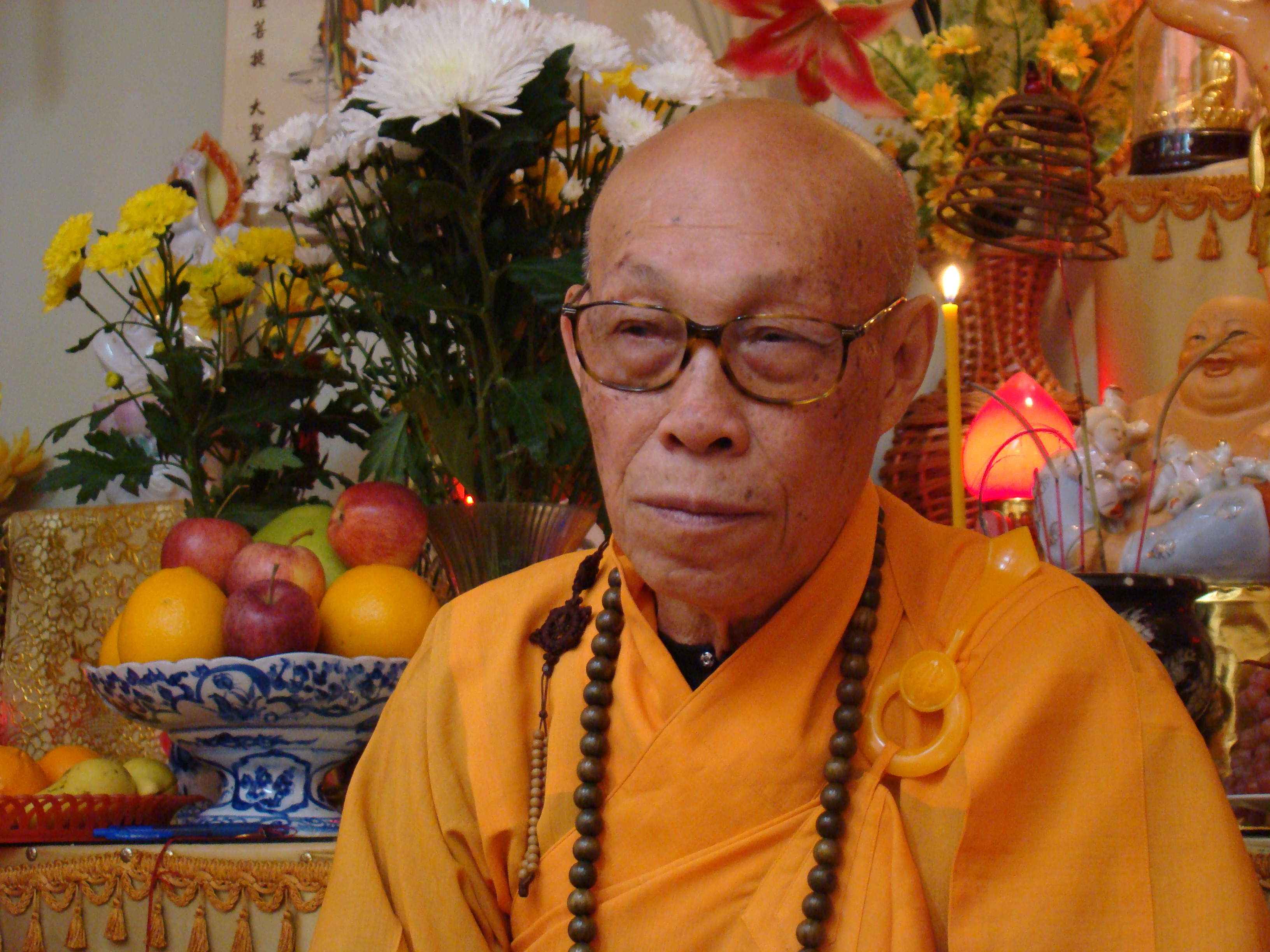 Venerable Thich Minh Tam